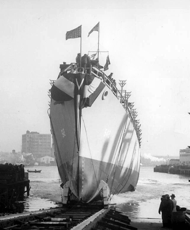 United States Navy destroyer escort USS Oswald A. Powers (DE-542) is launched at the Boston Navy Yard, Boston, Massachusetts